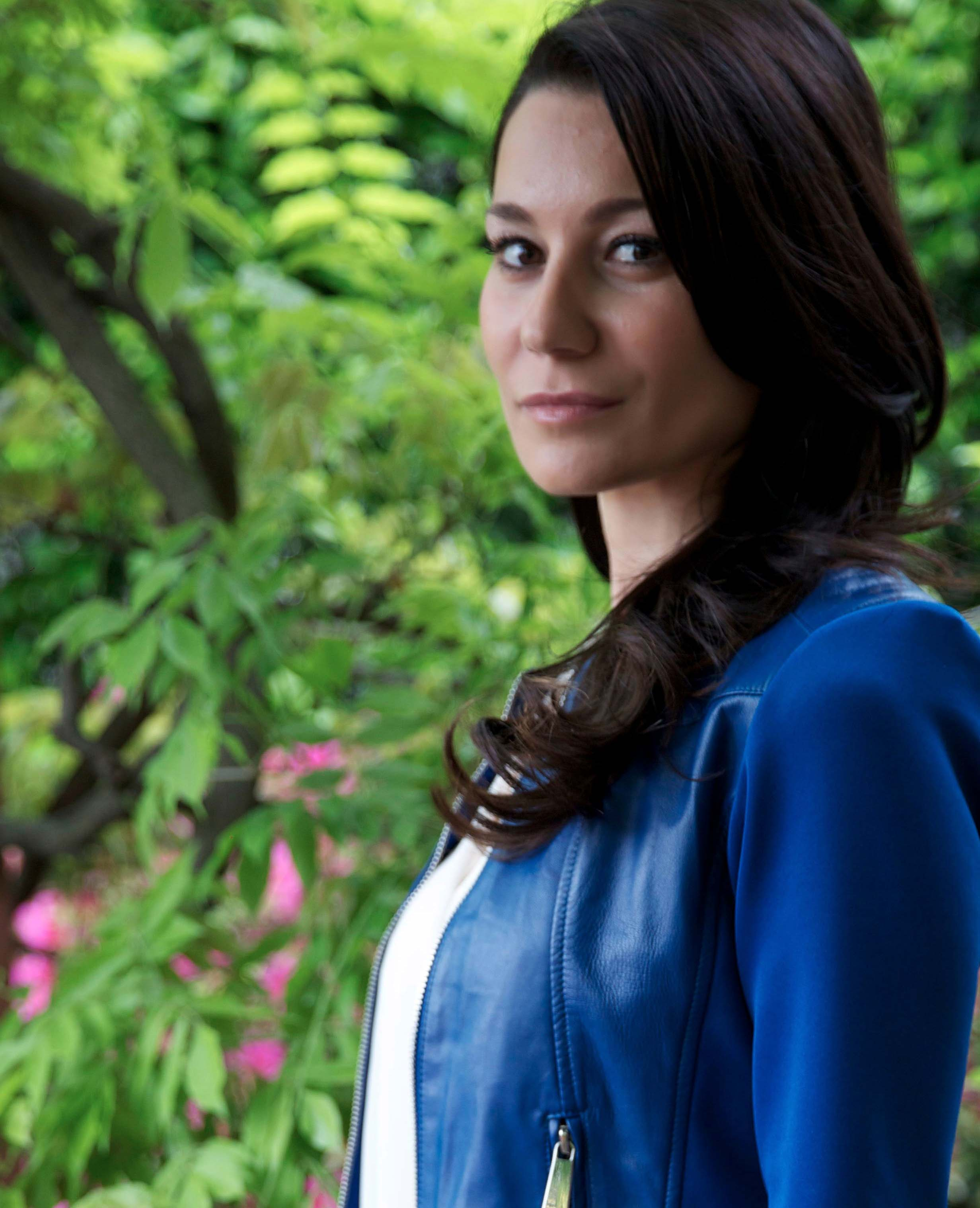 Italian writer Irene Cao at her home in Milan